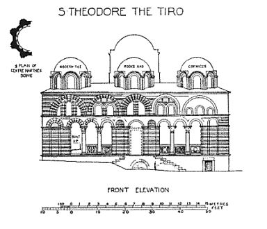 Front Elevation of Vefa Kilise Cami, Istanbul.